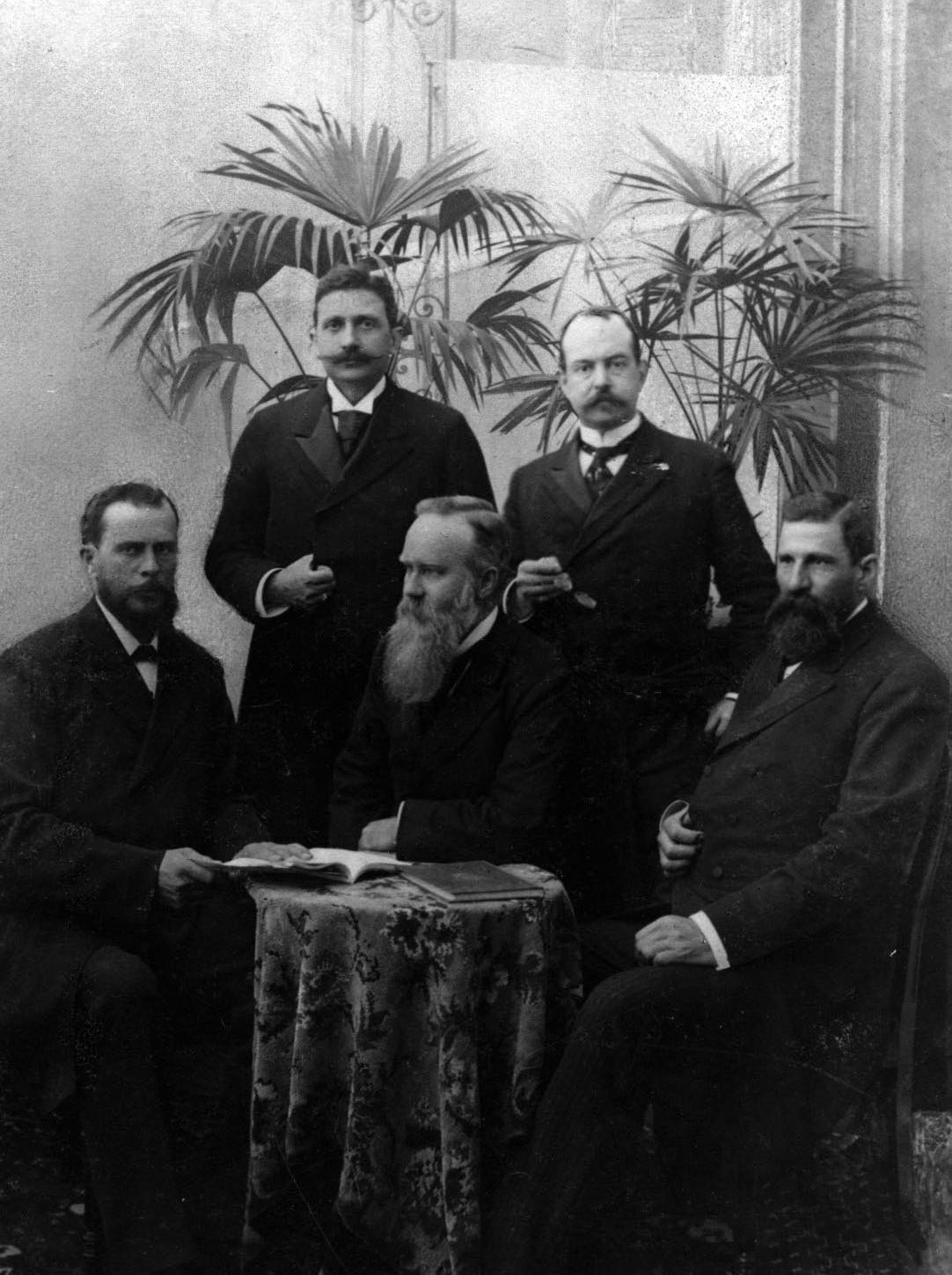 Group portrait of the members of the Special Diplomatic Delegation (Spesiale Gesantskap) of the Boer Republics of the Orange Free State and the South African Republic to Europe and America, 1900, l.t.r. front: A.D.W. Wolmarans (S.A.R.), A. Fischer (O.F.S.), C.H. Wessels (O.F.S.) and back: Dr. W.J. Leyds (Special Envoy and Minister Plenipotentiary of the S.A.R. in Belgium), Dr. H.P.N. Muller (Consul-General of the O.F.S. in The Netherlands and Special Envoy)